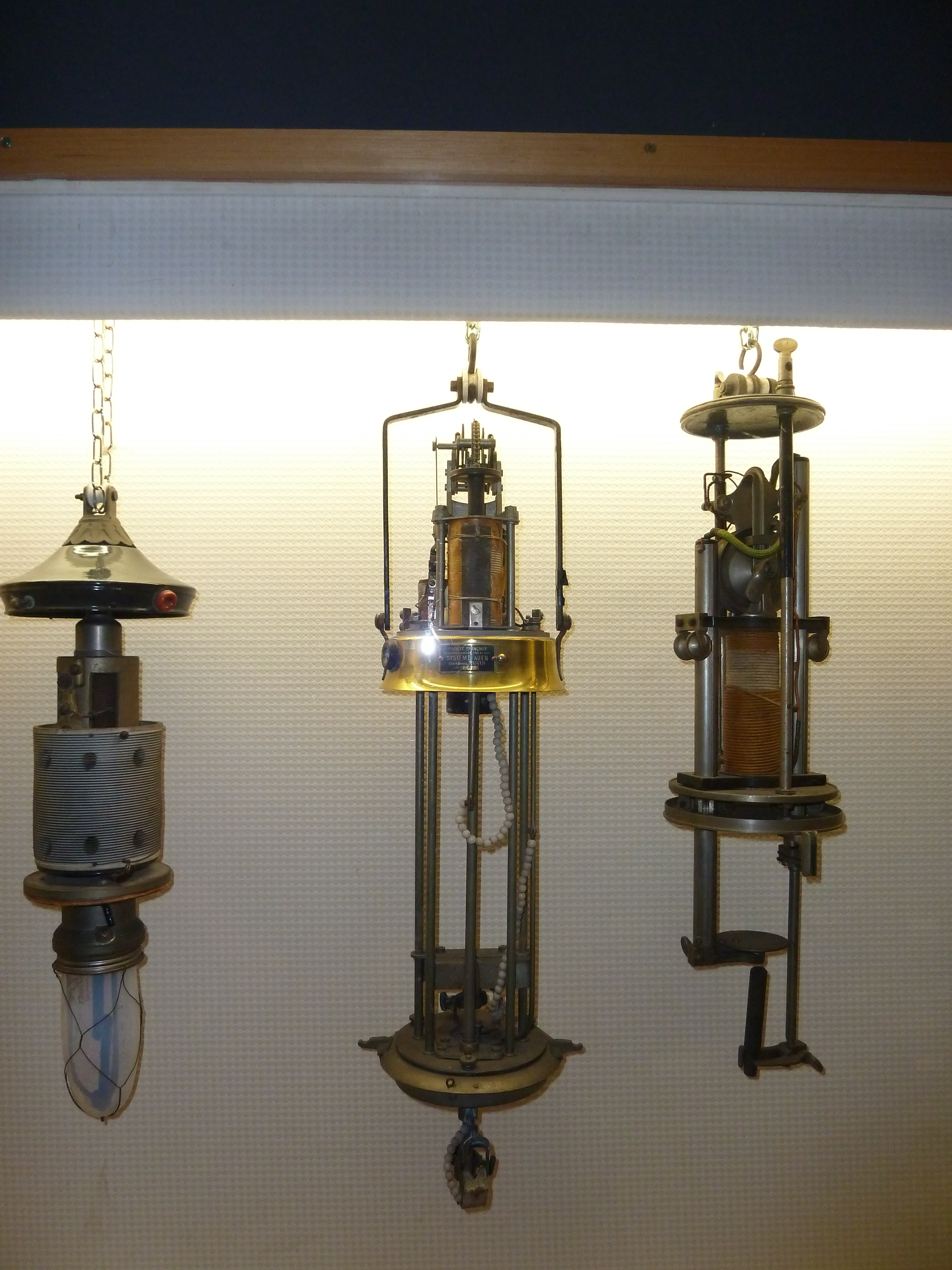 Arc lamps at the Maison de la Science, Liège